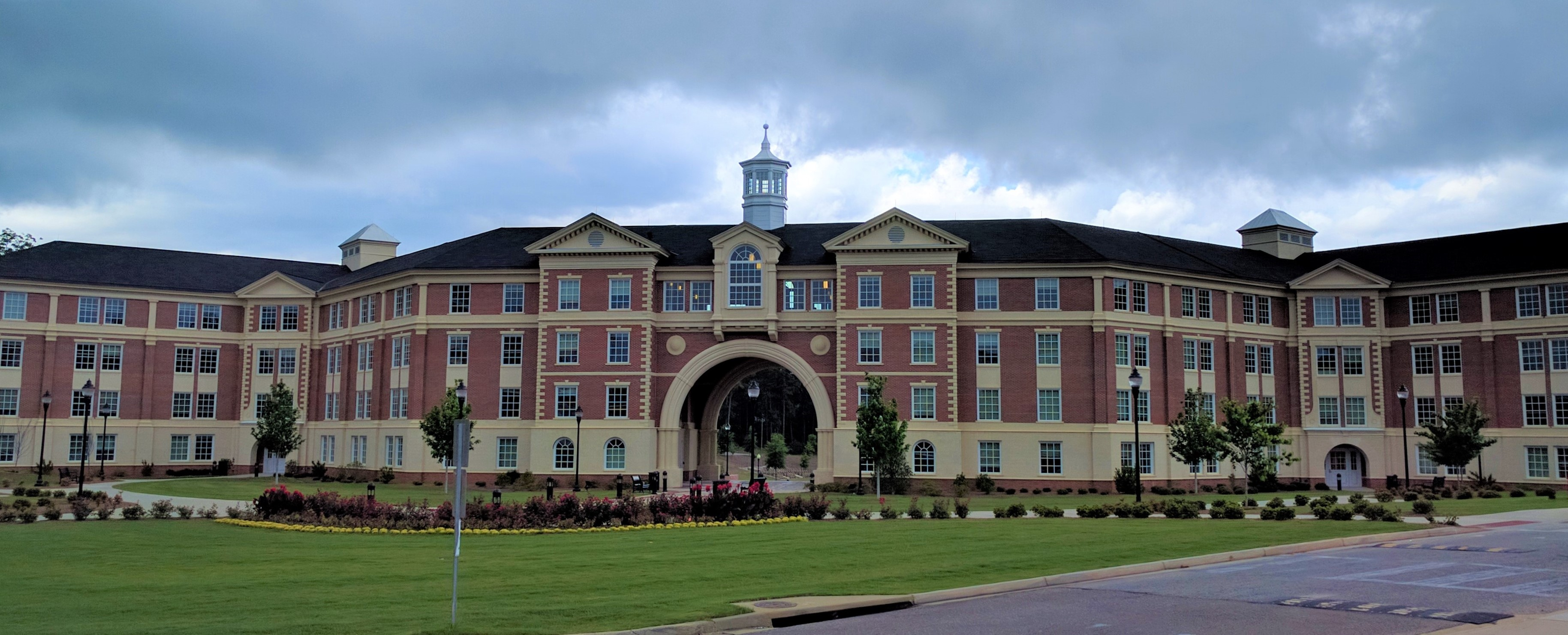 The residence halls at Troy.